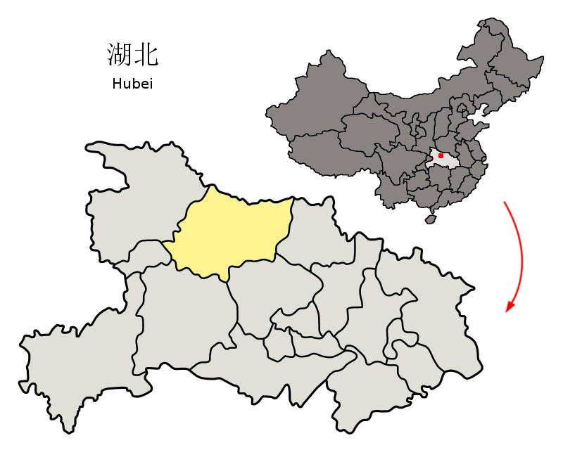 Location of Xiangfan Prefecture (yellow) within Hubei Province of China Map drawn in december 2007 using various sources, mainly : Hubei Province administrative regions GIS data: 1:1M, County level, 1990 Hubei Counties map from